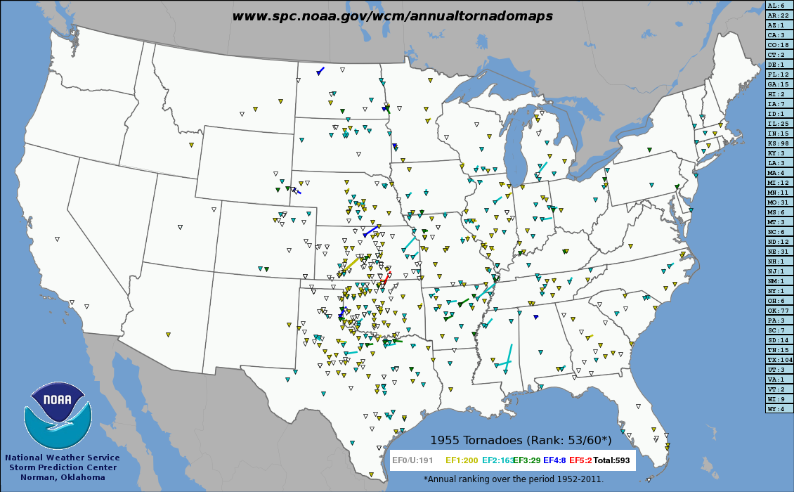 Track of every U.S. tornado from 1955.